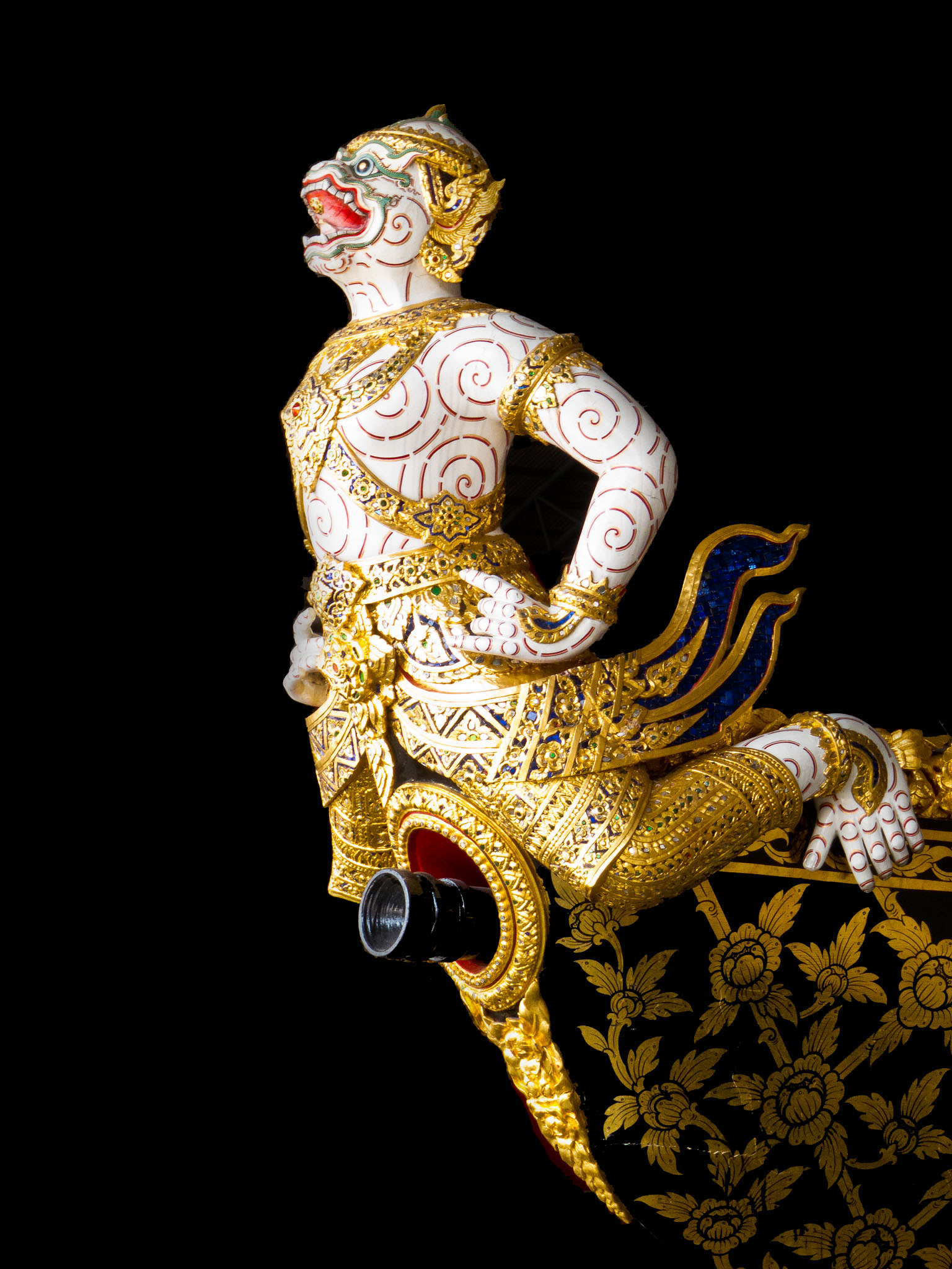 The Hanuman figurehead on the Krabi Peab Muang Mara Barge at the Royal Barge Museum in Bangkok, Thailand. Hanuman the monkey is a popular character from the Indian Ramayana epic story who has supernatural powers such as walking in air.